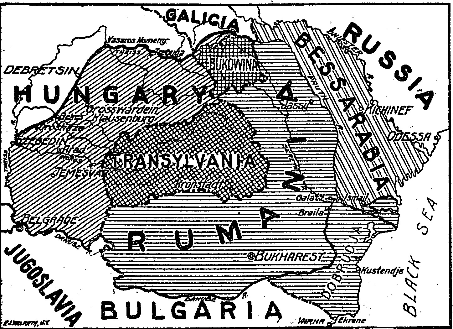 Greater Rumania with the border with Hungary according to the Secret Treaty of Bucharest, and including Bessarabia.